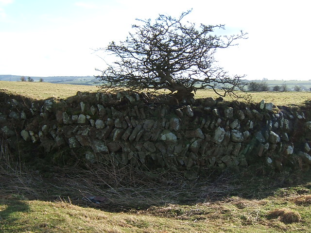 Longovicium The distinctive herringbone pattern walls of this Roman fort are much more readily visible in winter when the vegetation has died down. There is no public access so the road view is all you get.